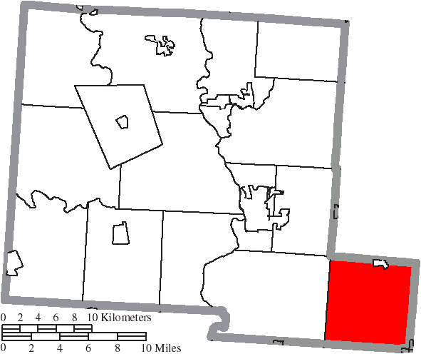 Map of the municipal and township boundaries of Pickaway County, Ohio, United States, as of the 2000 census, with the location of Salt Creek Township highlighted. Township borders are shown only in unincorporated areas in order to differentiate incorporated and unincorporated areas more clearly.